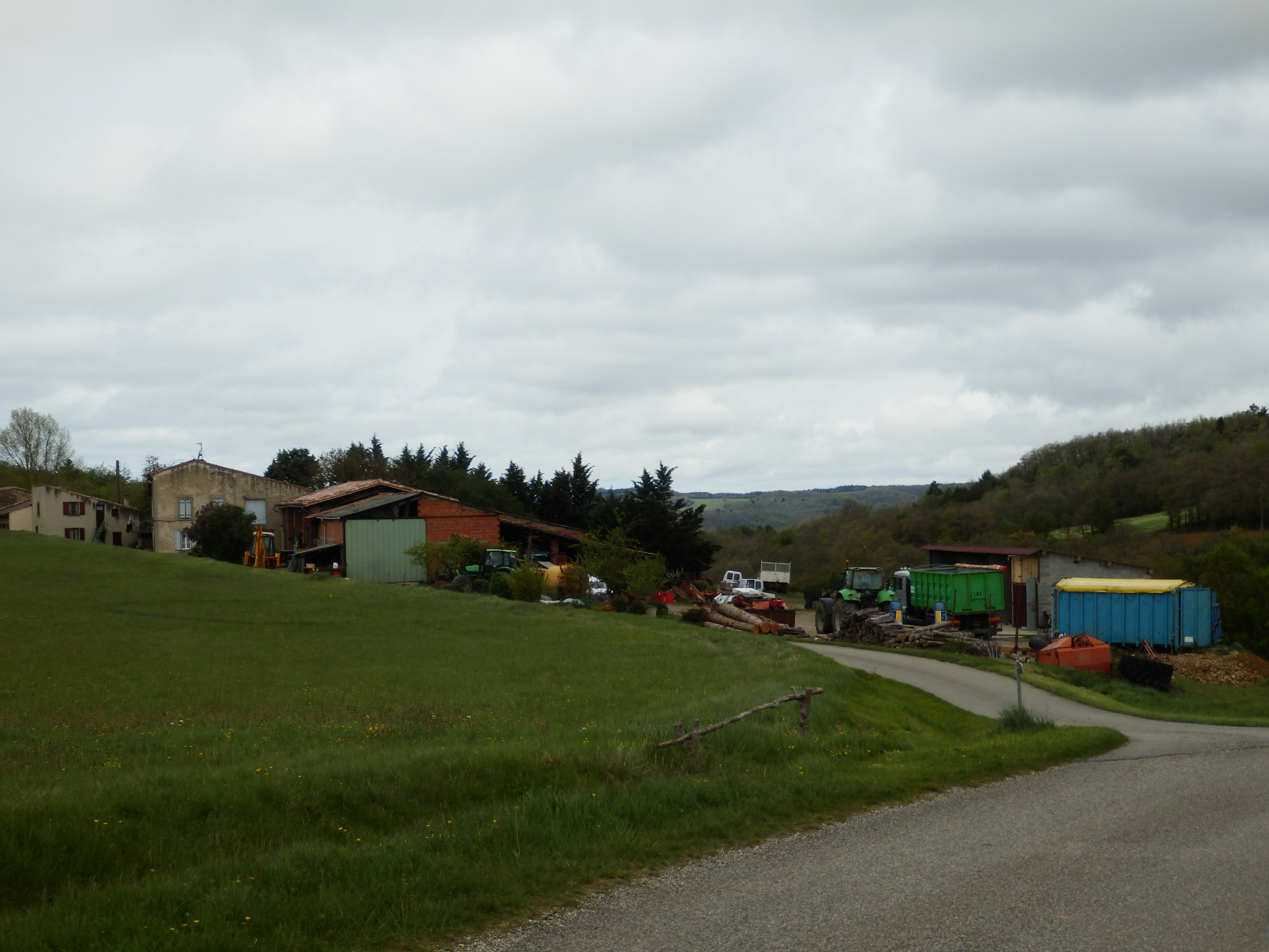 Hameau de Lacalm in Saint-Benoît, Aude, France